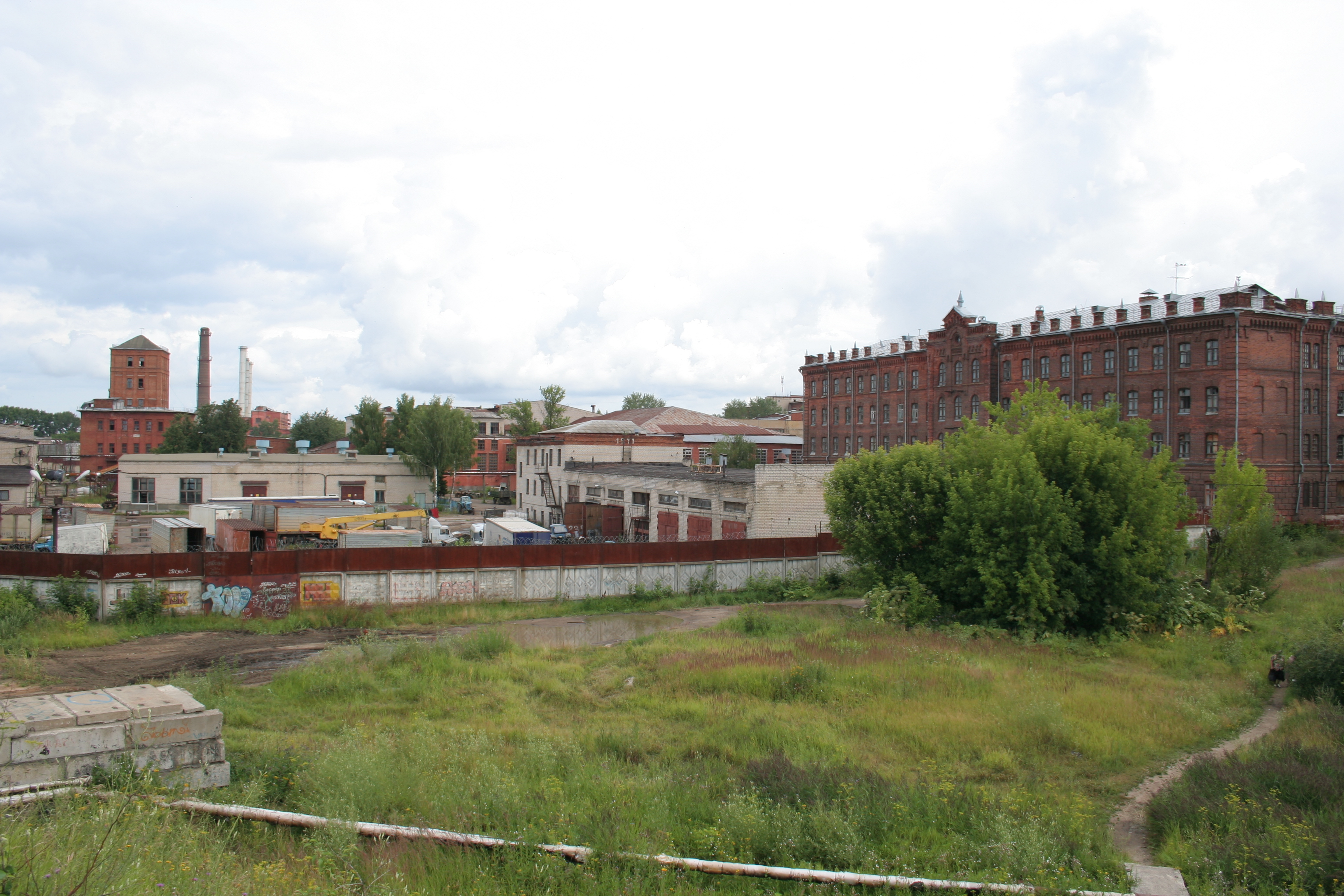 Buildings of the Linum Manufactures in Kostroma, Russia.